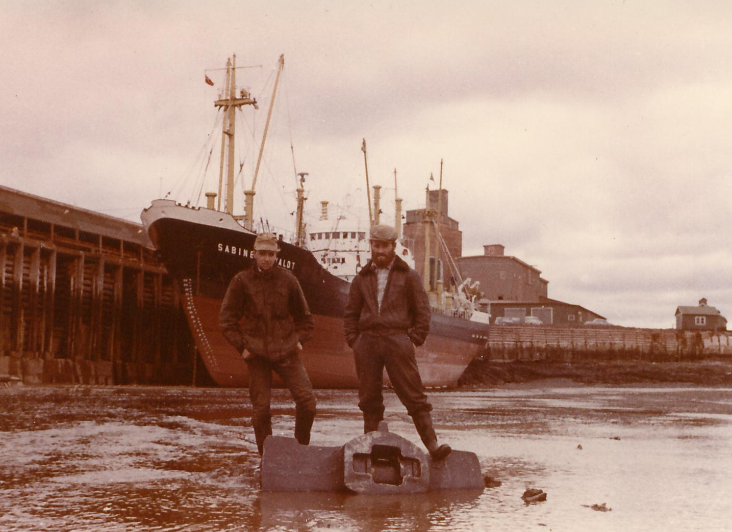 The German cargo ship Sabine Howaldt in the tidal harbor from Walton, Nova Scotia, Canada - 1958